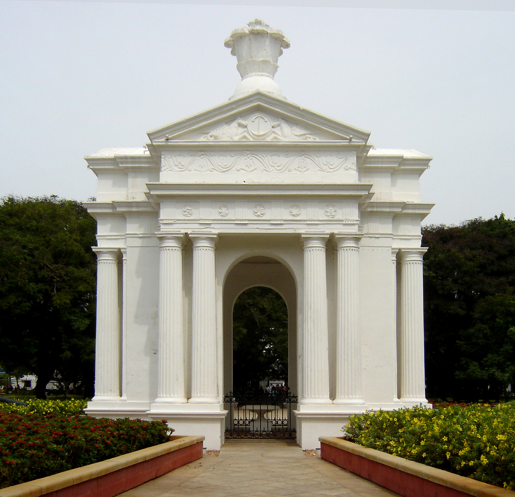 Park Monunemt (Aayi Mandapam) in the Governement Park of Puducherry, India